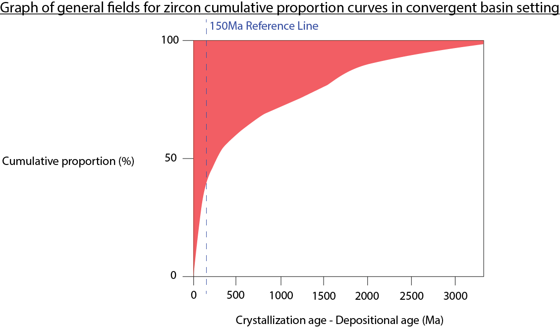 Graph illustrating the generalized zone for cumulative proportional curves of CA-DA in collisional basins